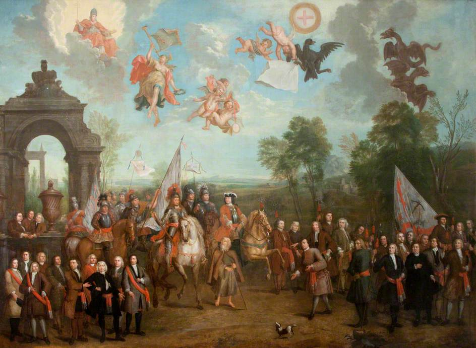 Painting of William III, the Duke of Schomberg, and the Pope. The painting shows arrival of King William III in Ireland in the 1690s, with Pope Innocent XI giving a blessing (top left).